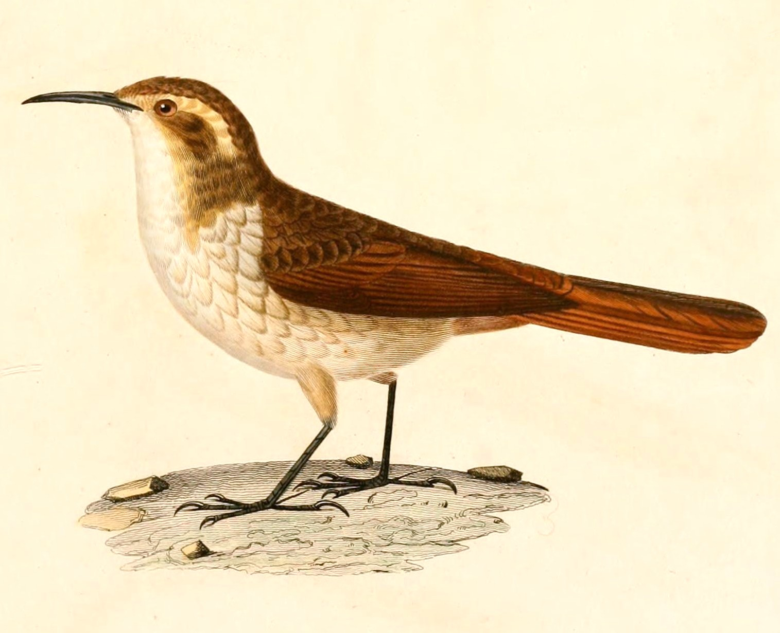 « Uppucerthia andaecola » = Ochetorhynchus andaecola (Rock Earthcreeper)